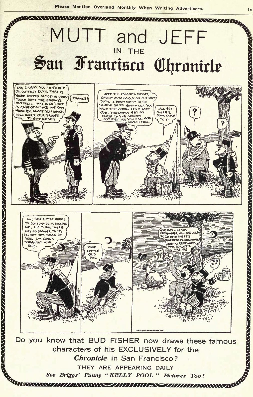 Mutt and Jeff Comic Strip Advertisement from Overland Monthly, January 1916